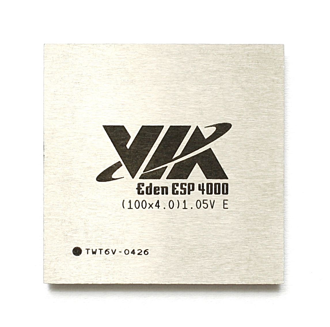 CPU VIA Eden ESP4000